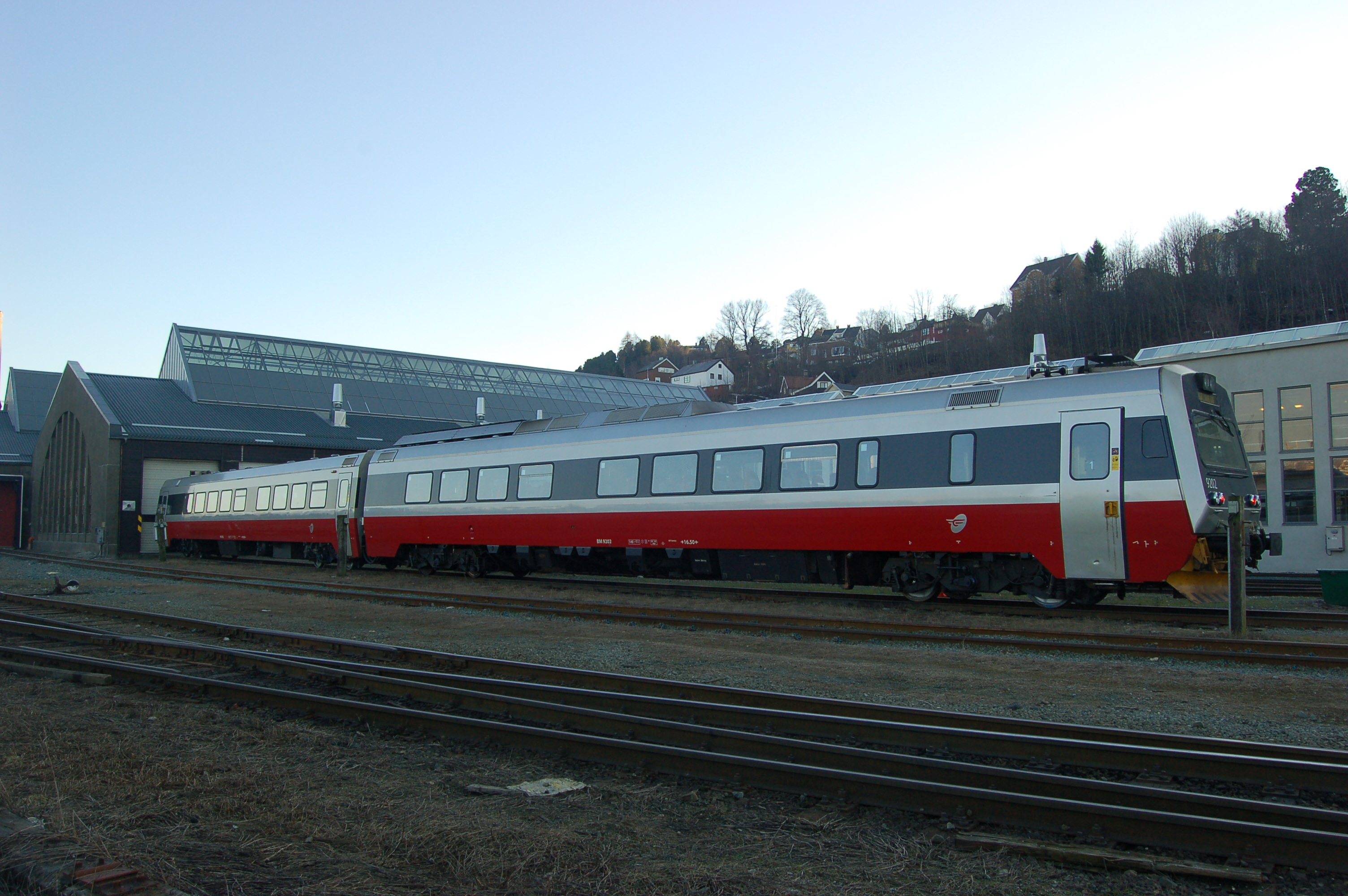 Norges Statsbaner Class 92 at Marienborg, Trondheim, Norway.